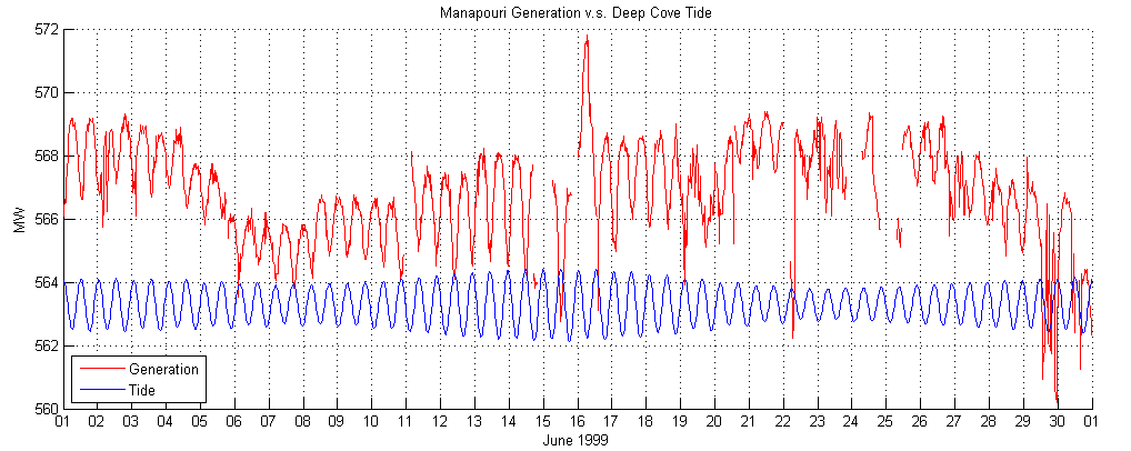 Plot of half-hourly electricity generation at Manapouri with the tide height at Deep Cove (tailrace outlet) over June 1999, showing peak generation aligning with low tide (and vice-versa) as these times cycle around the day, thus not following the normal 24-hour cycle of electricity usage. Generation below 560MW is ignored, and the tide height has 562 added to ease comparison.